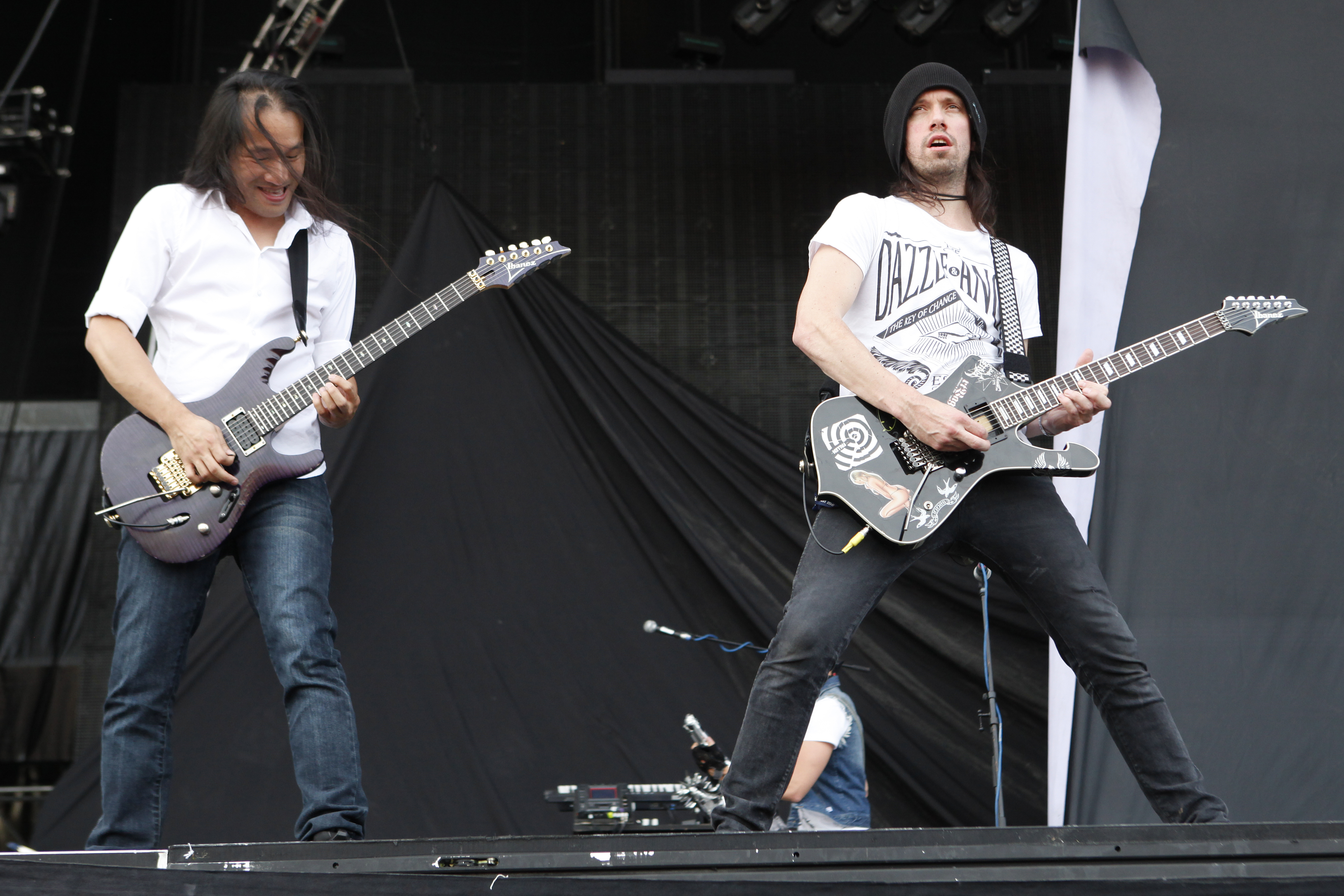 Herman Li and Sam Totman of DragonForce at Nova Rock-Festival 2013.